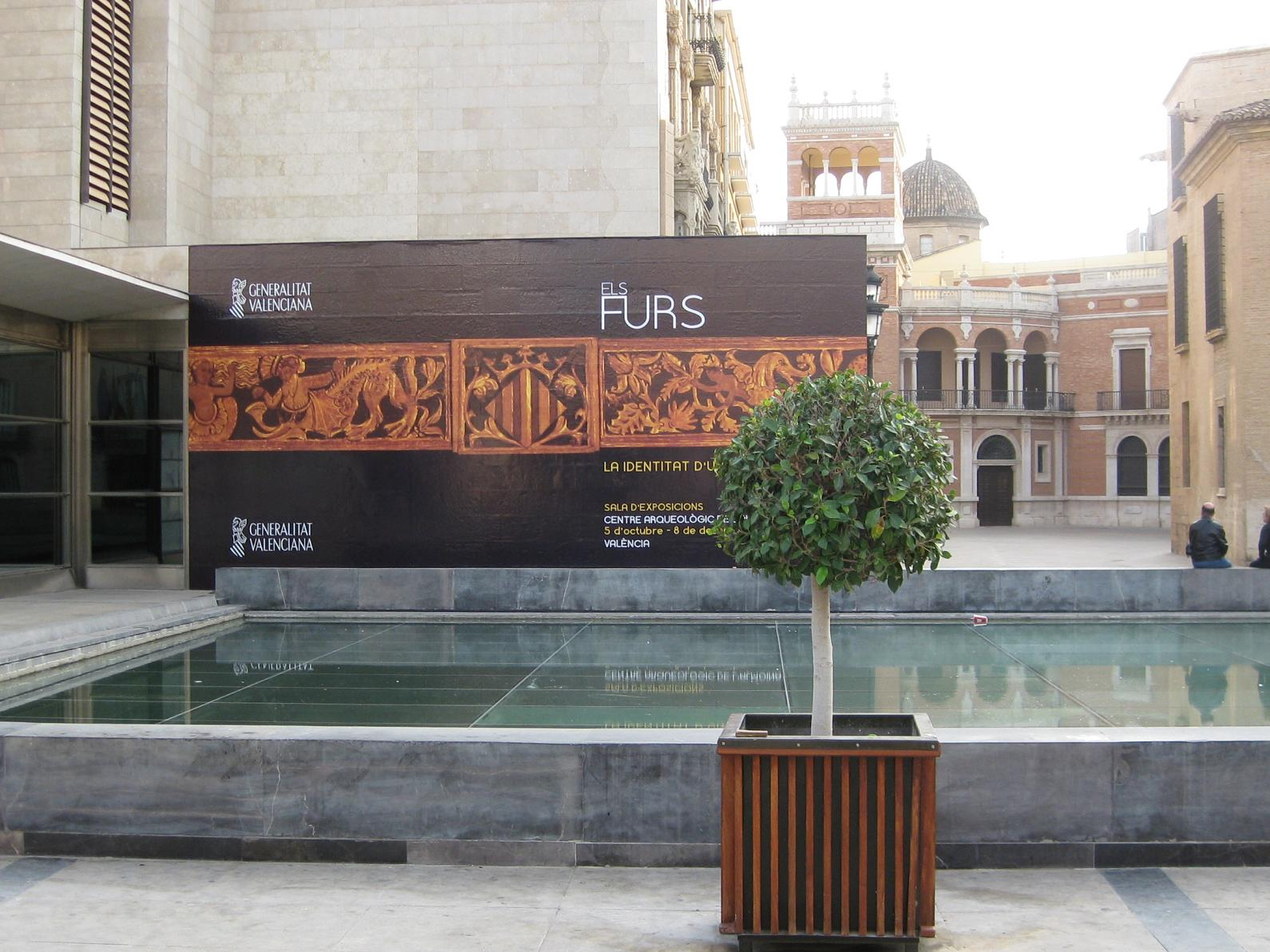 Centre Arqueològic de l'Almoina, Valencia, Spain.